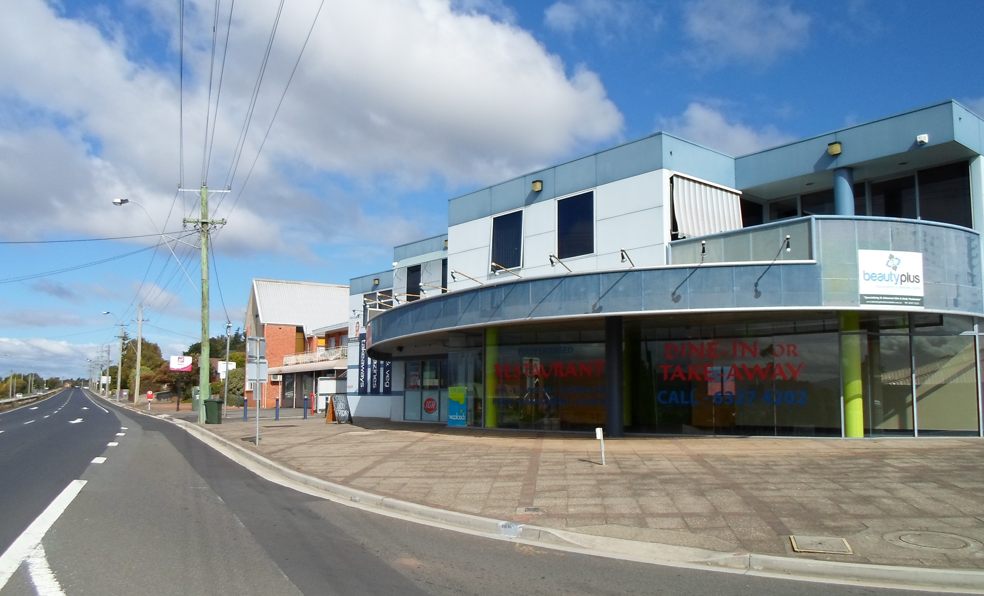 Riverside IGA and St Davids Church on the intersection of Ecclestone Road and the West Tamar Highway